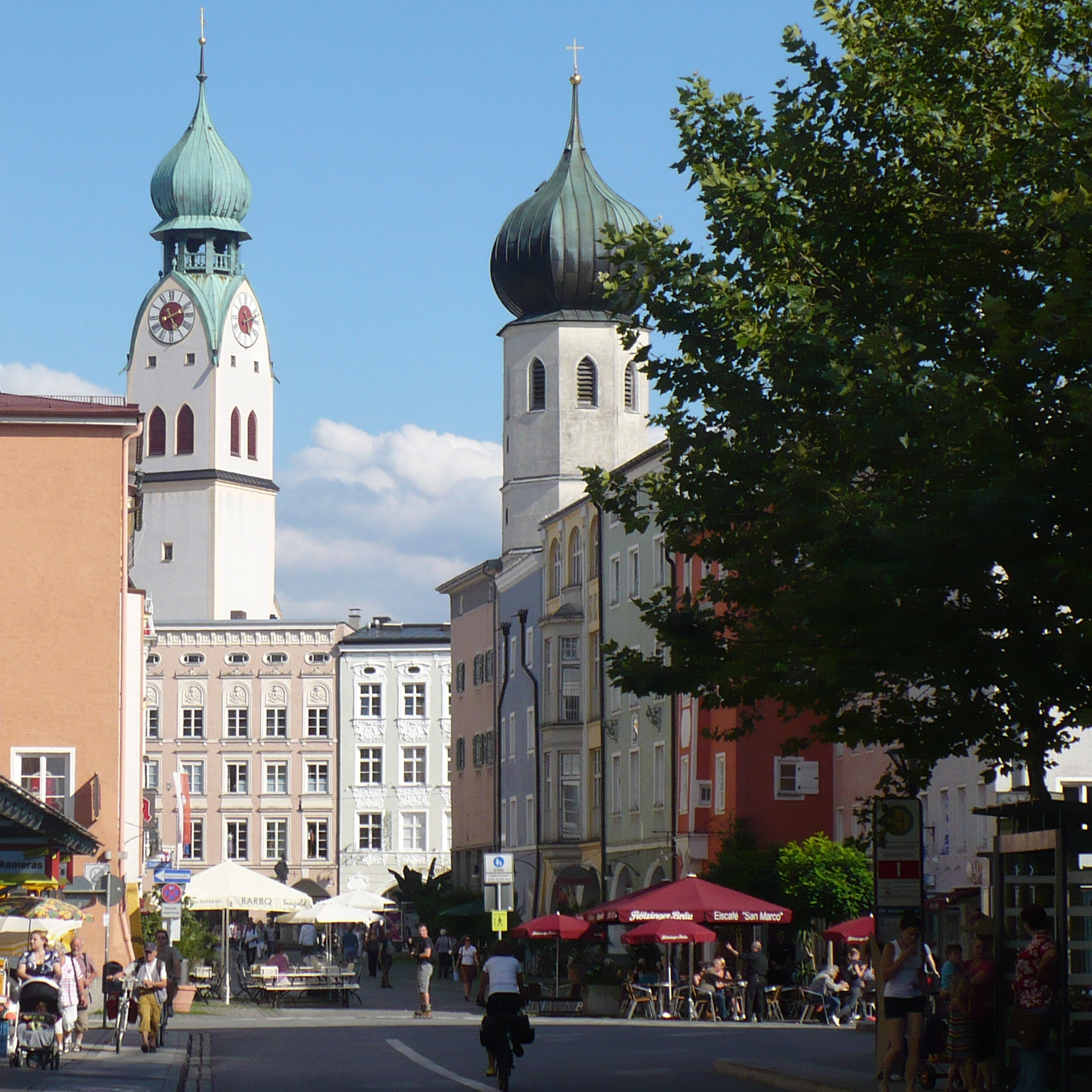 Rosenheim pedestrian precinct Hl.-Geist-Str.